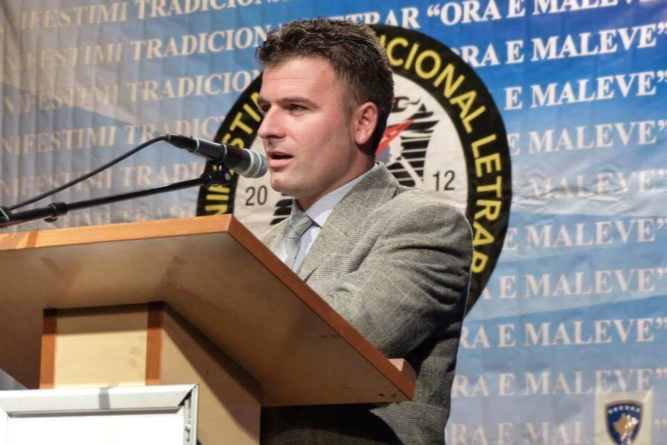 Poet and Jurnalist Jeton Kelmendi